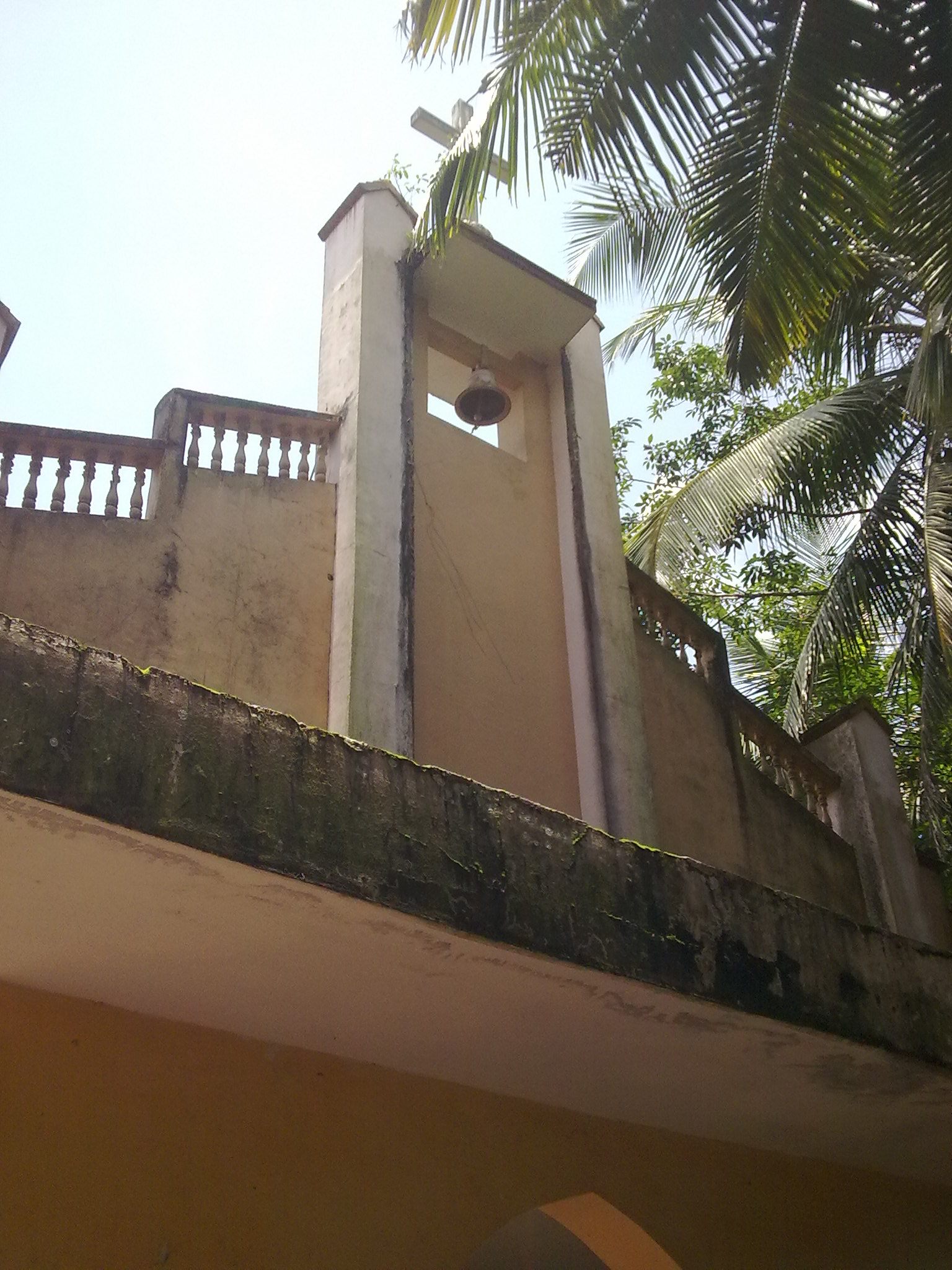 Arohana Marthoma Church is a church situated in Anicadu Village,5km from Nedumkunnam and 4 km from Mallappally in Pathanamthitta district in the southern part of Kerala, India.